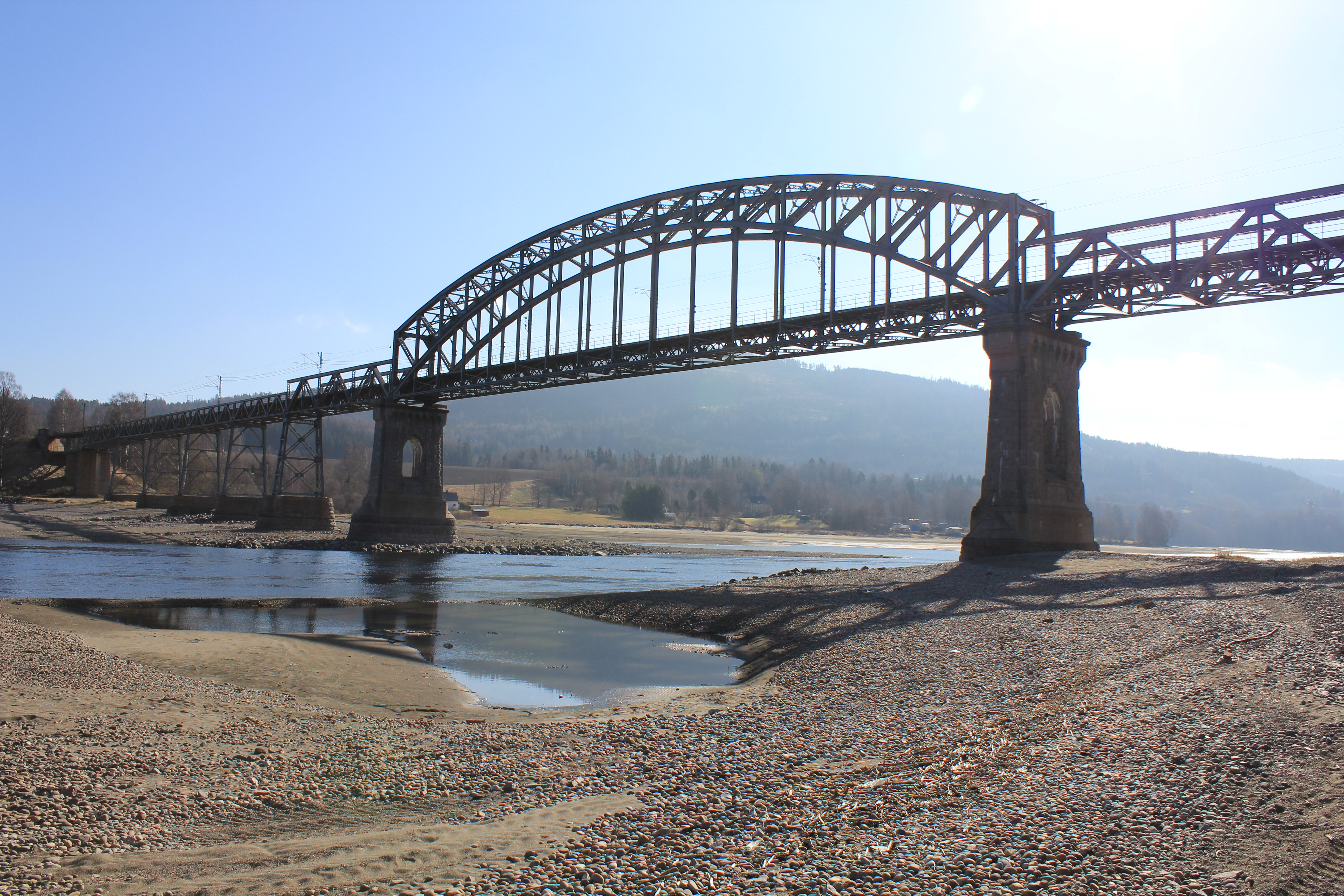 Railroad bridge by Minnesund, Norway.